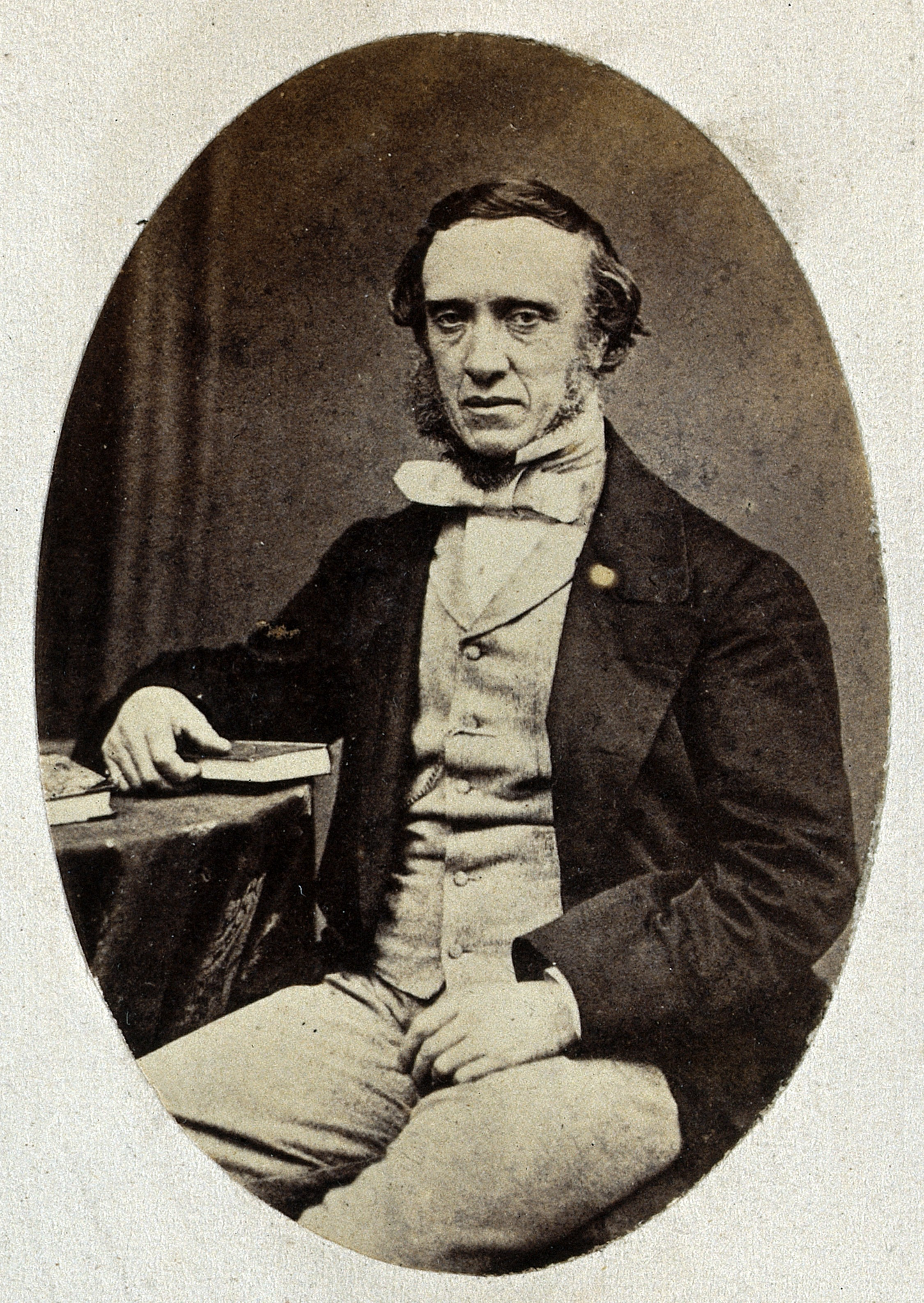 James Spence. Photograph. Iconographic Collections Keywords: portrait photographs